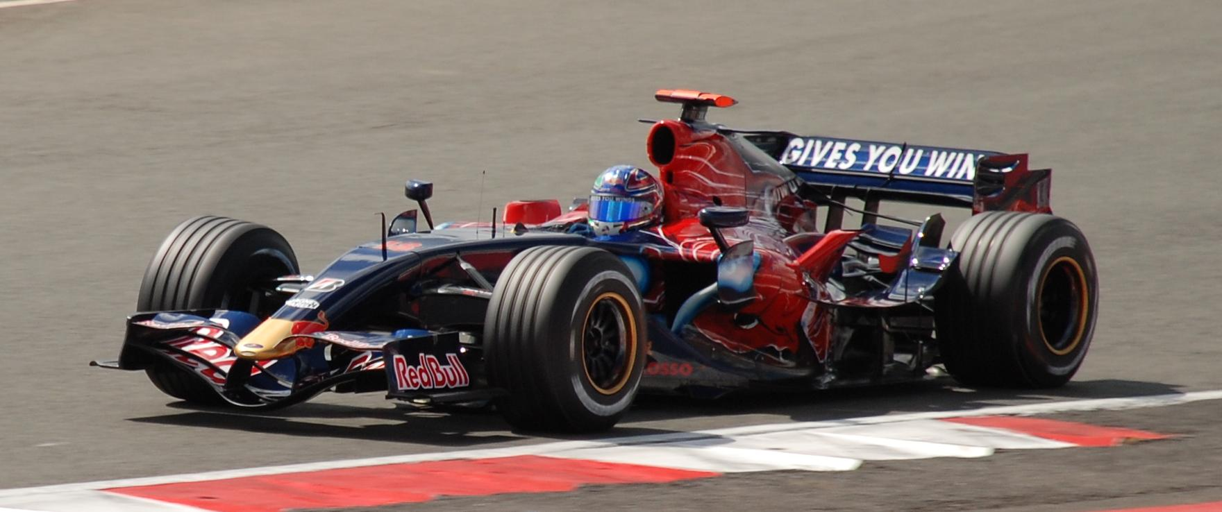 Vitantonio Liuzzi driving for Scuderia Toro Rosso at the 2007 British Grand Prix.